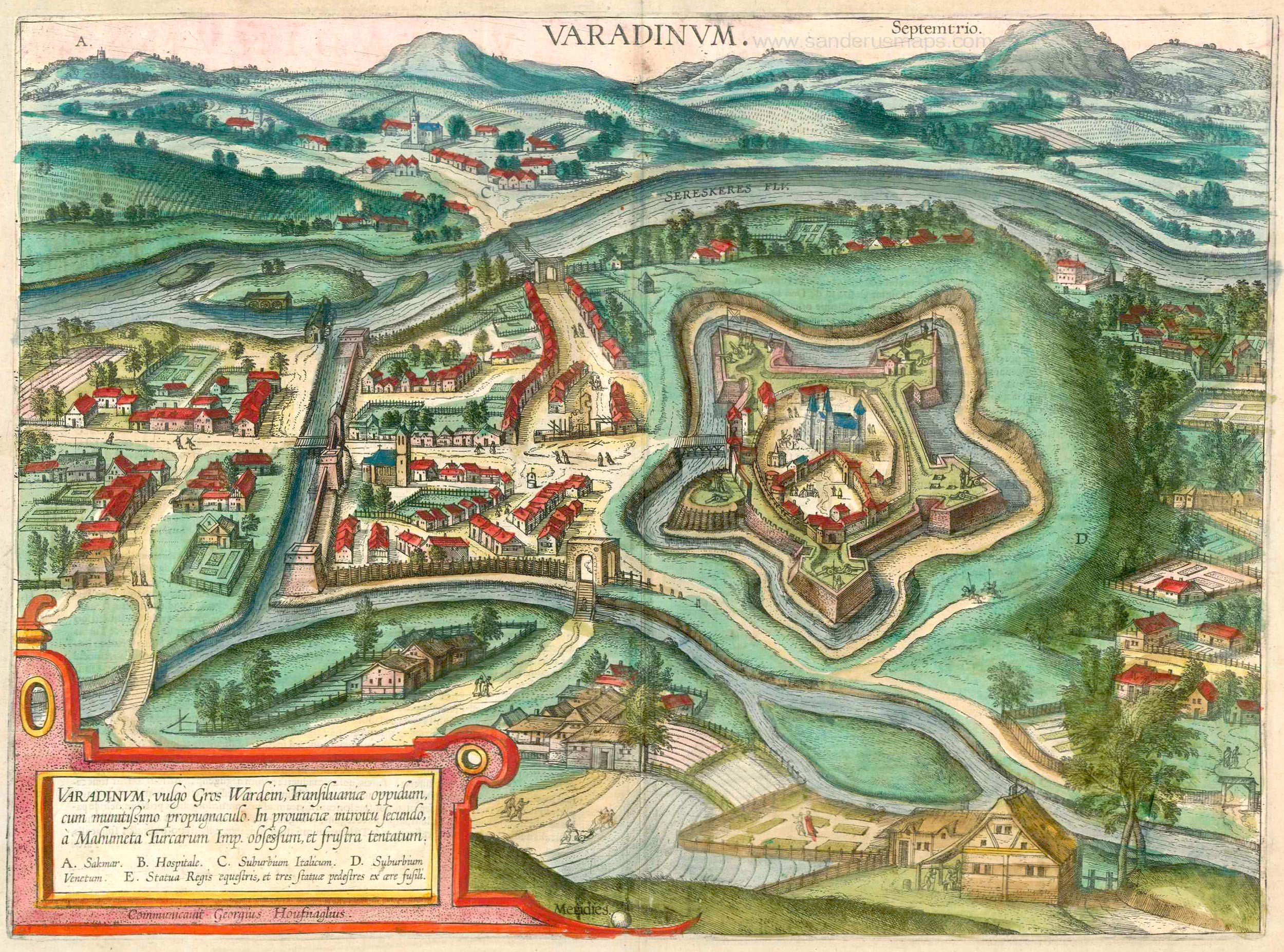 Oradea in the 1617, nowadays in Romania, Varadinum, vulgo Gros Wardein, Transilvaniae oppidum, cum munitissimo propugnaculo. ...